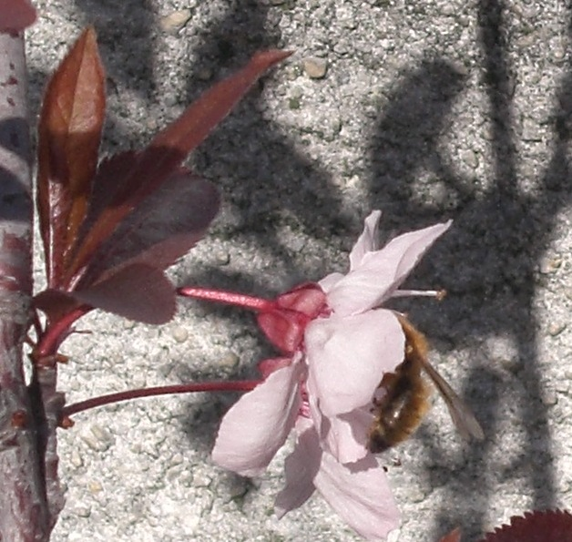 Une abeille butinant un Prunus Bee at work